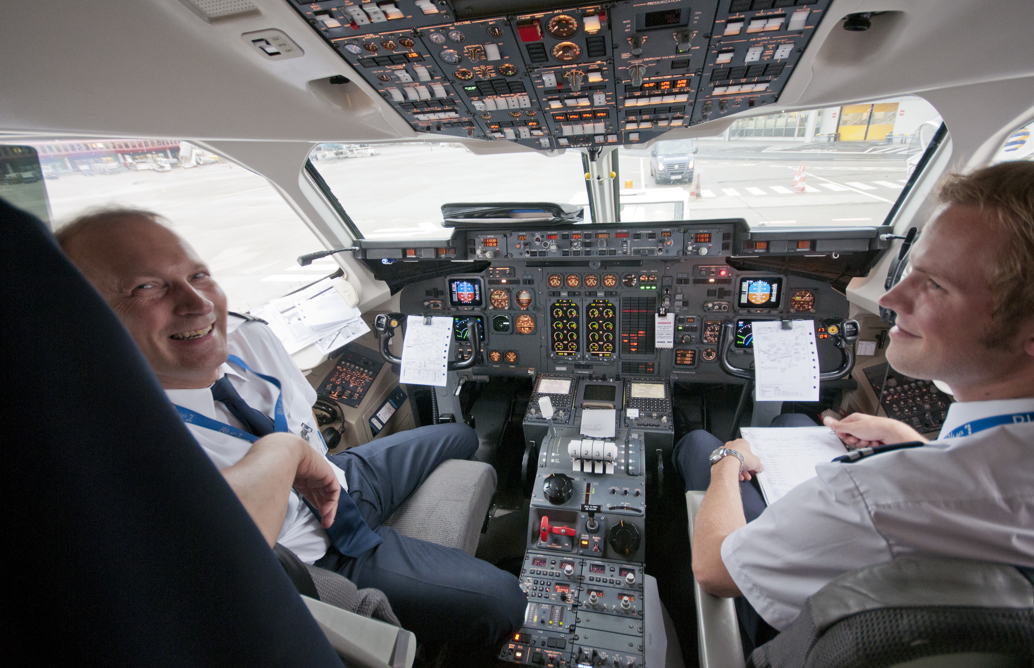 Cockpit of BAE Systems Avro 146-RJ85 aircraft (OH-SAP, Pielinen) of Blue1 in Helsinki